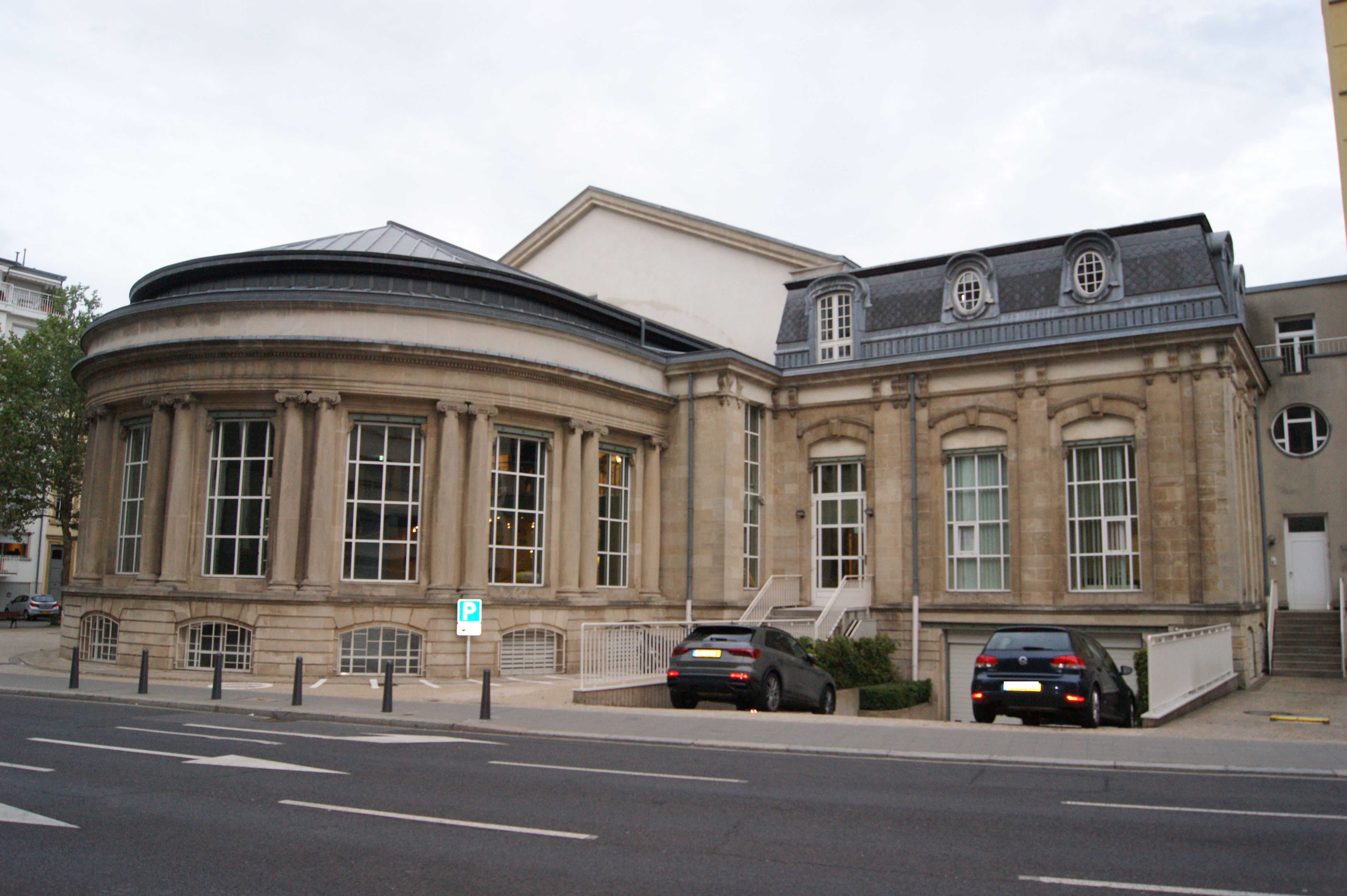 Swimming baths in the City of Luxembourg in the Grand Duchy of Luxembourg